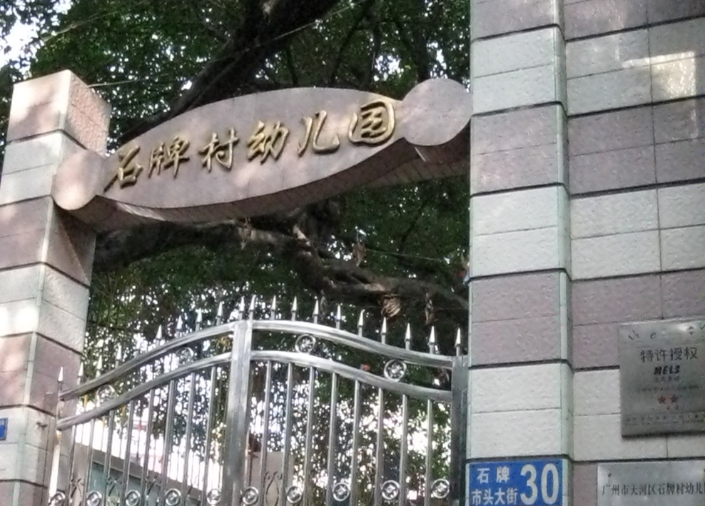 Shipai Kindergarten,Shipai Village, Guangzhou, China